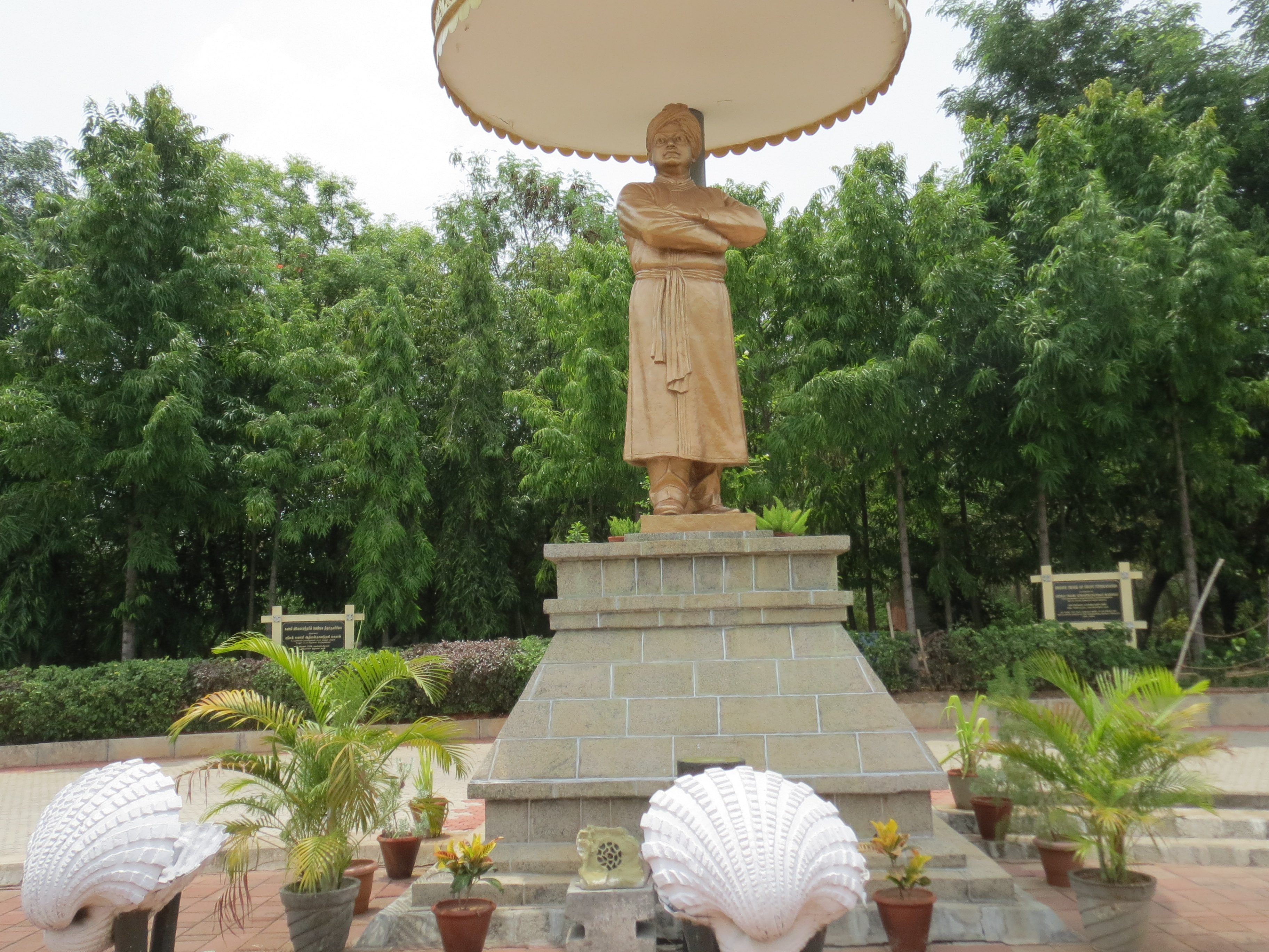 Vivekanandha statue at Vivekanandha park in Coimbatore, Tamil nadu.